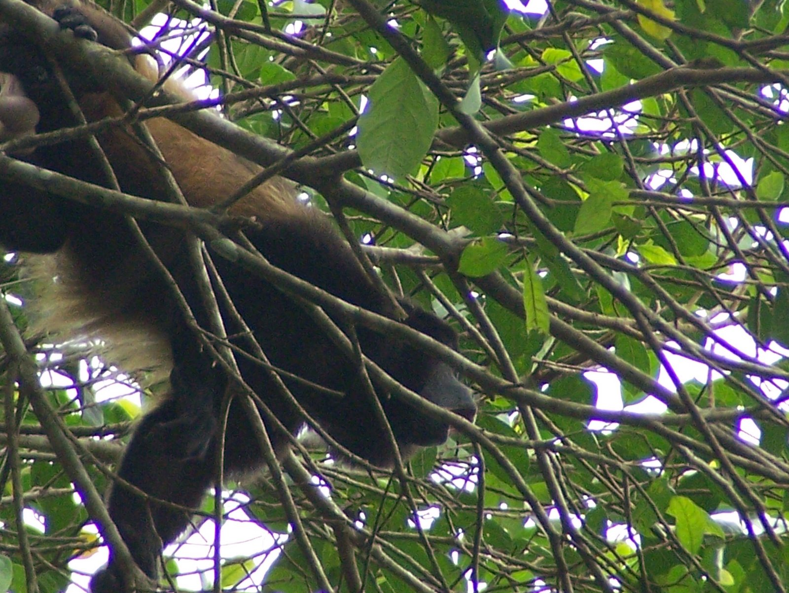 Mantled Howler howling in tree in Manuel Antonio National Park in Costa Rica